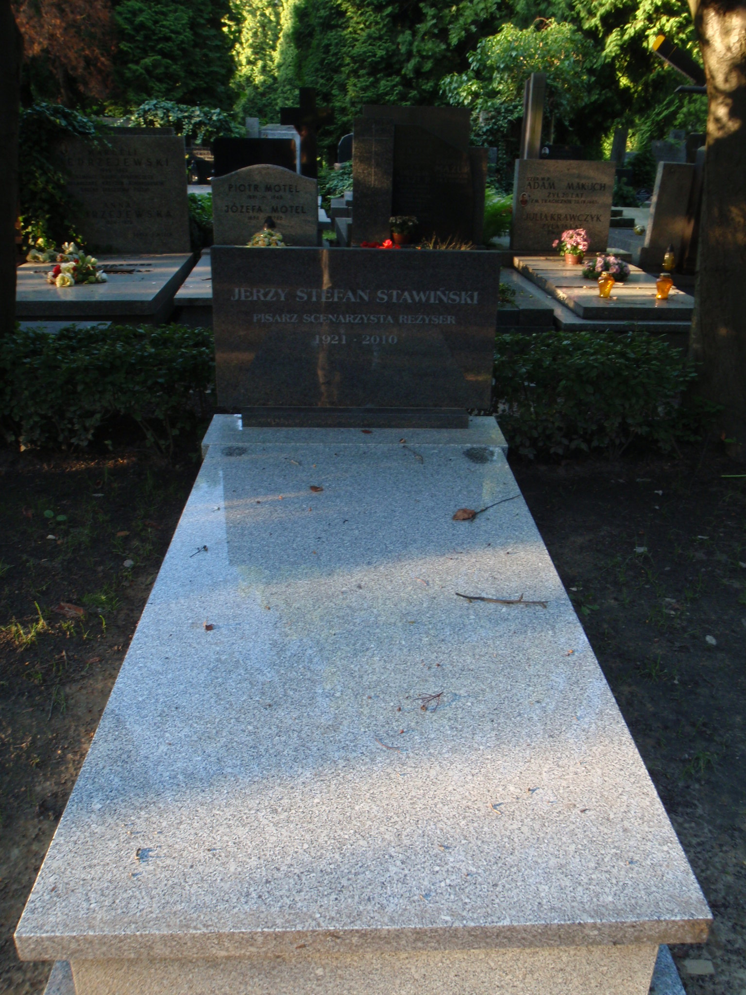 Grave of Jerzy Stefan Stawiński